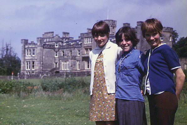 A group of Glaswegians standing in front of Castle Toward, in the Cowal peninsula in Argyll, Scotland.